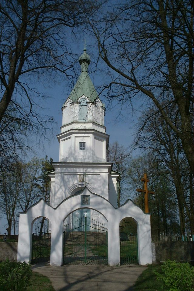 Poland, Narewka - orthodox church of Saint Nicholas.